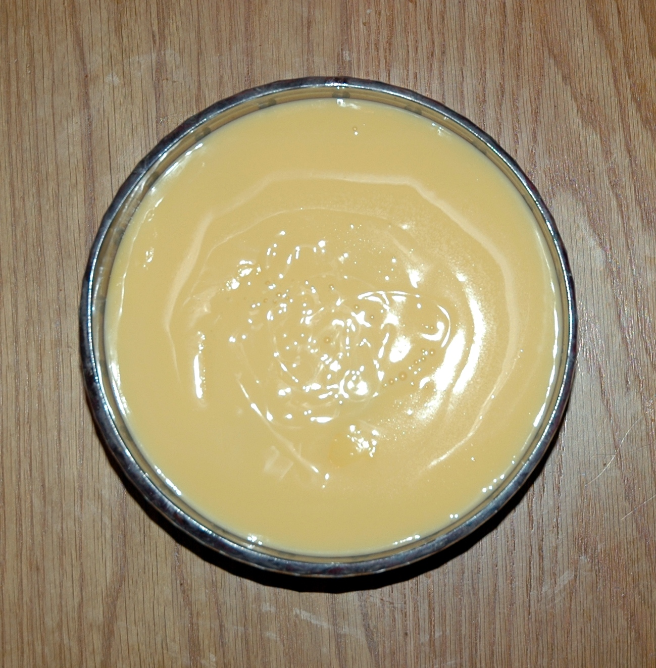 Custard viewed from above